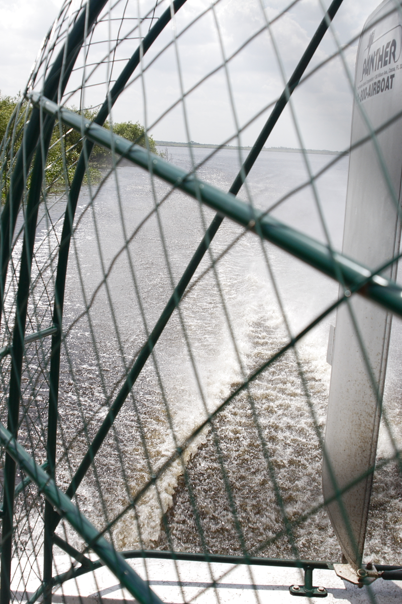 Air boat - aft view.